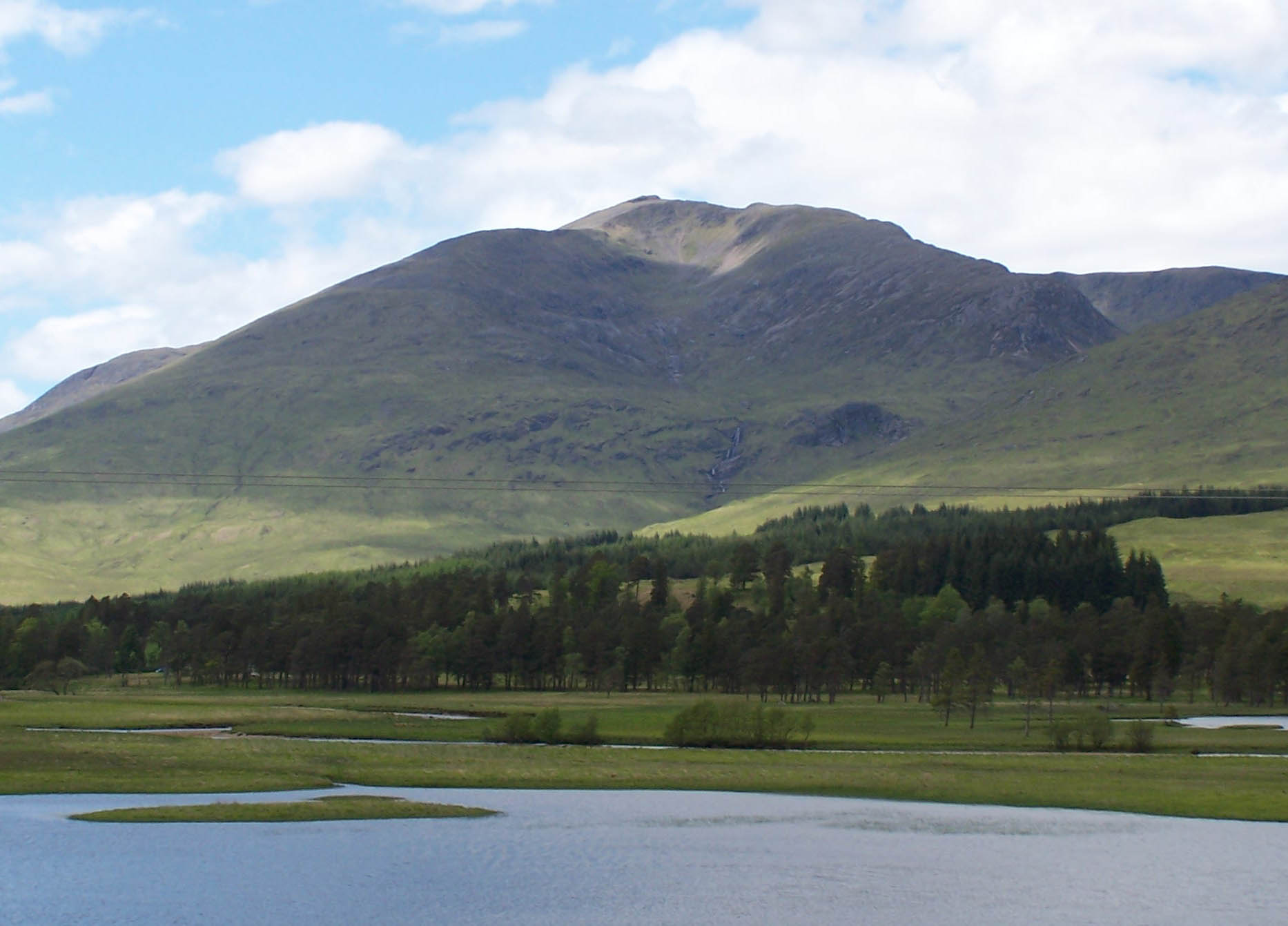 Personal picture taken by Mick Knapton